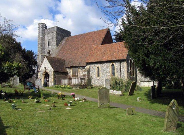 St Michael, Hartlip, Kent